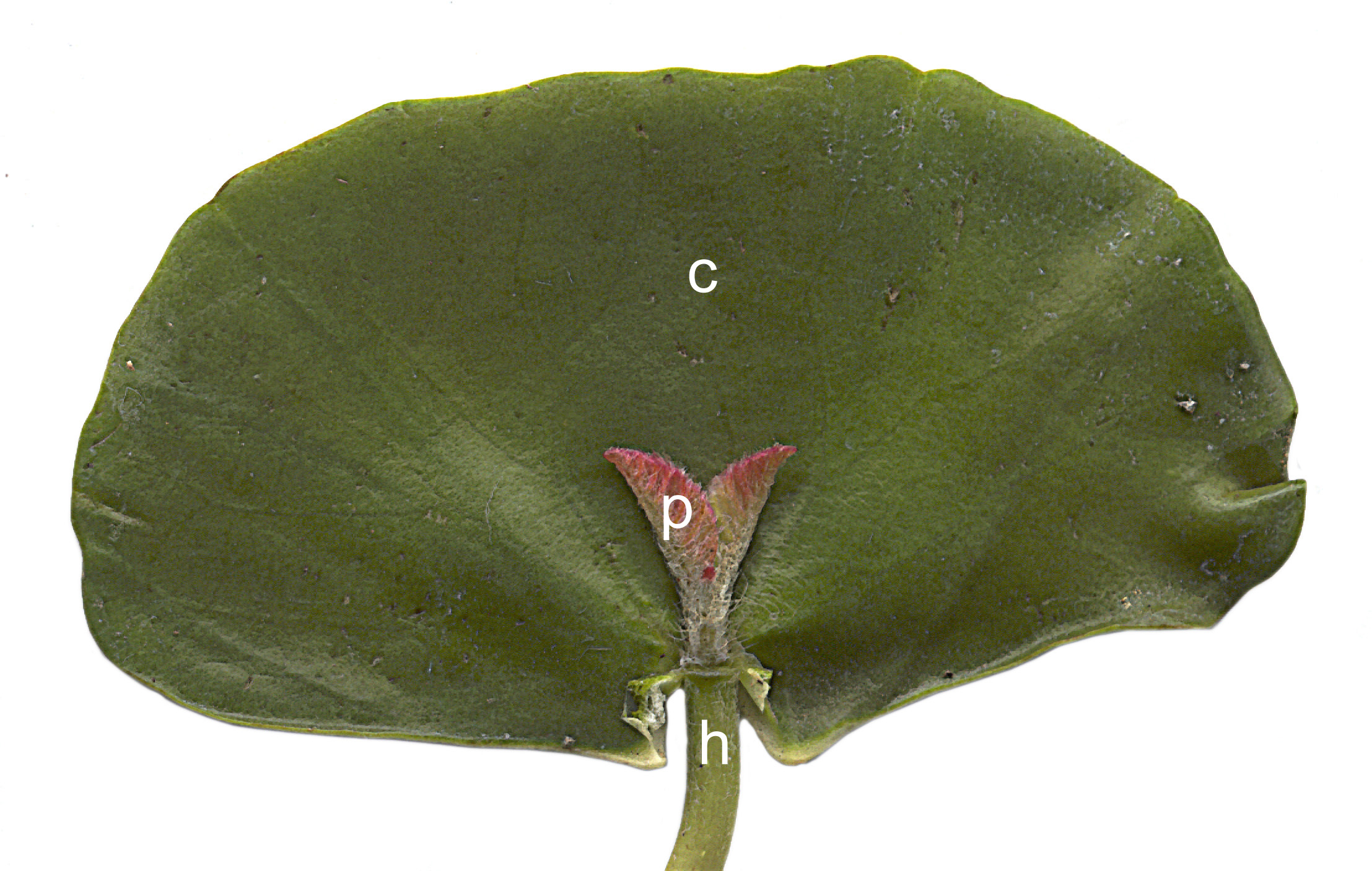 One of two photosynthetic cotyledons of beech (photo: Mihailo Grbic)